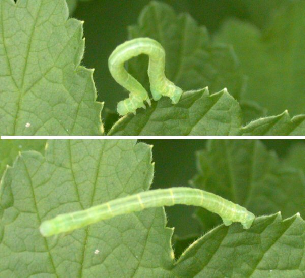 Caterpillar of family Geometridae [Lepidoptera] Photographed & uploaded by Keith Edkins, Cambridge, UK.